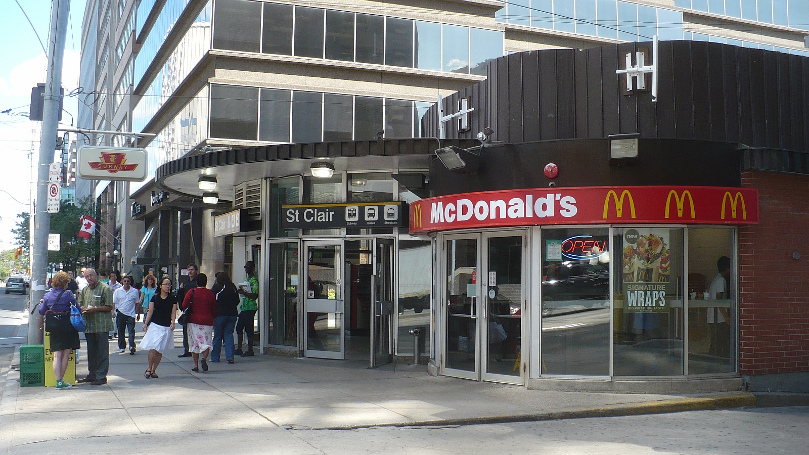 St. Clair subway station in Toronto. This entrance is on the south side of St. Clair Avenue East has golden arches